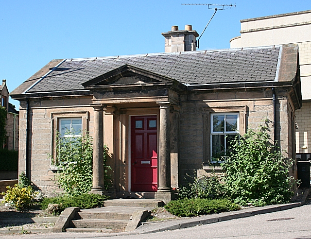 Gate Lodge, Dr Gray's Hospital. A neat little lodge guards the north entrance to the hospital grounds.